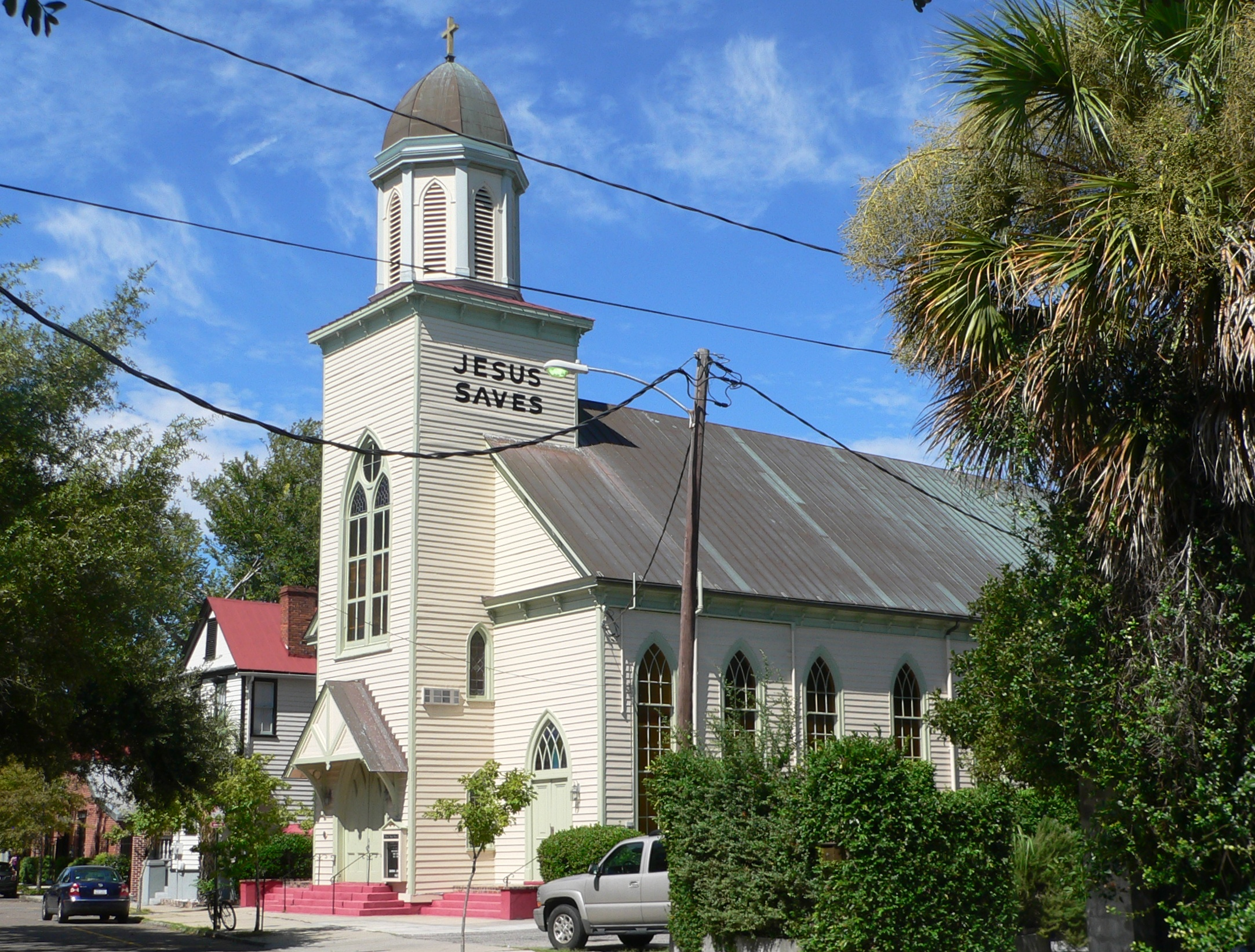 Central Baptist Church (Charleston, South Carolina), located at 26 Radcliffe Street; seen from the east.